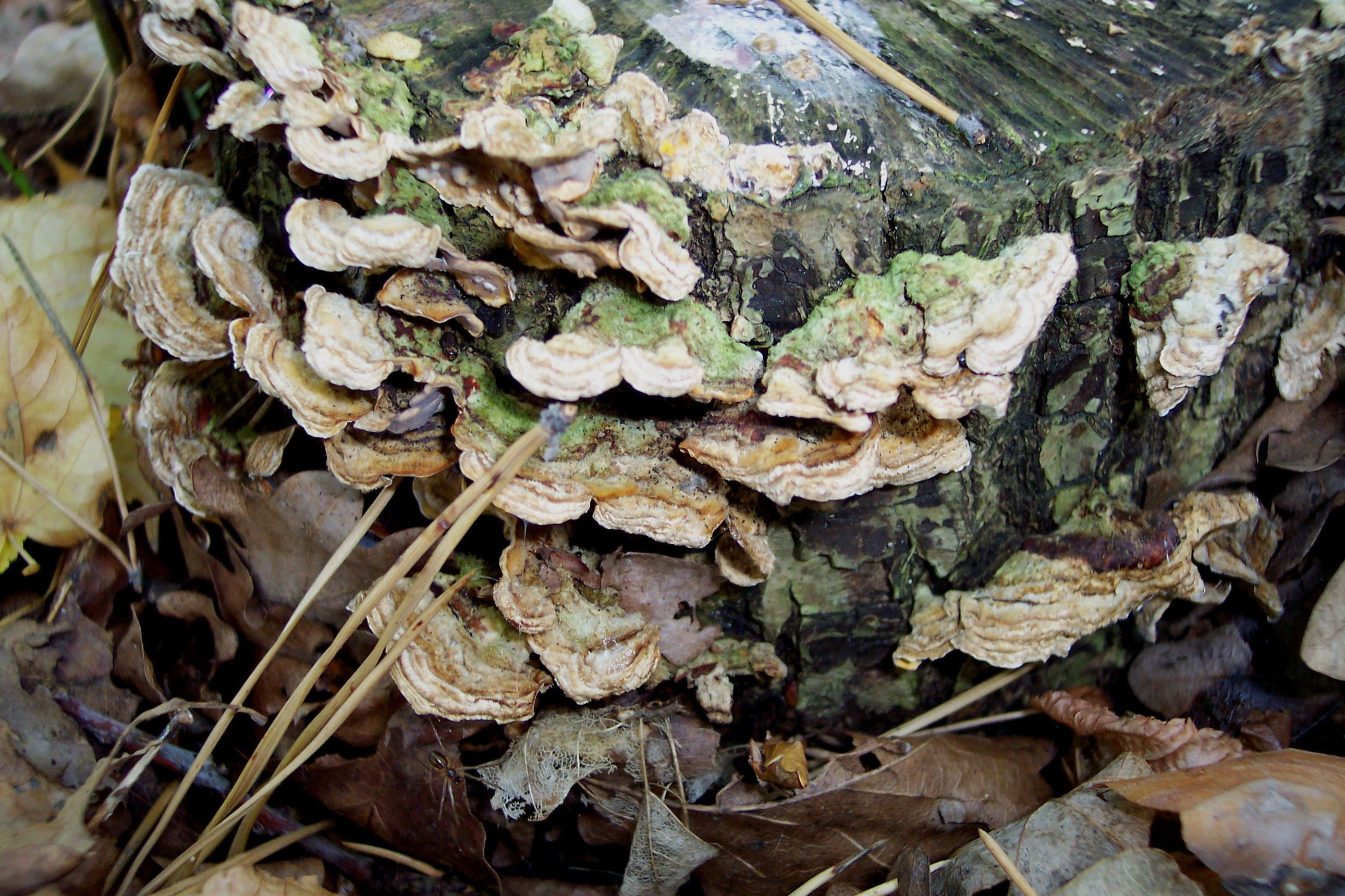 Stereum hirsutum